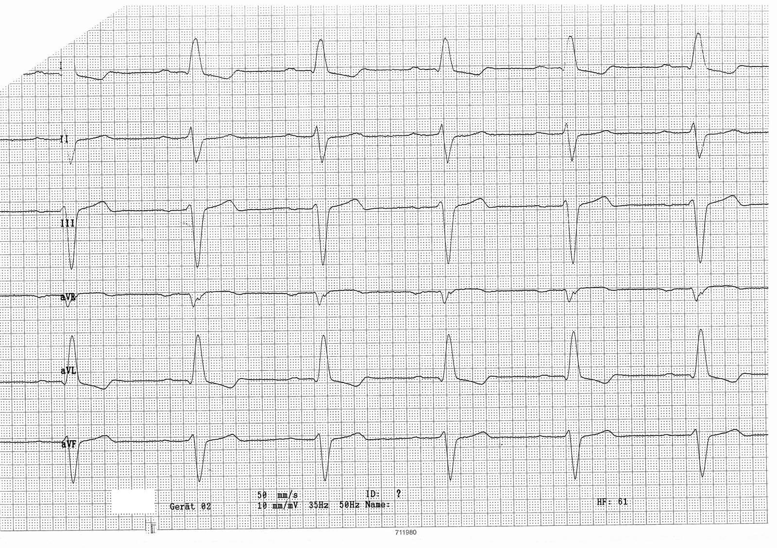 ECG left anterior hemiblock